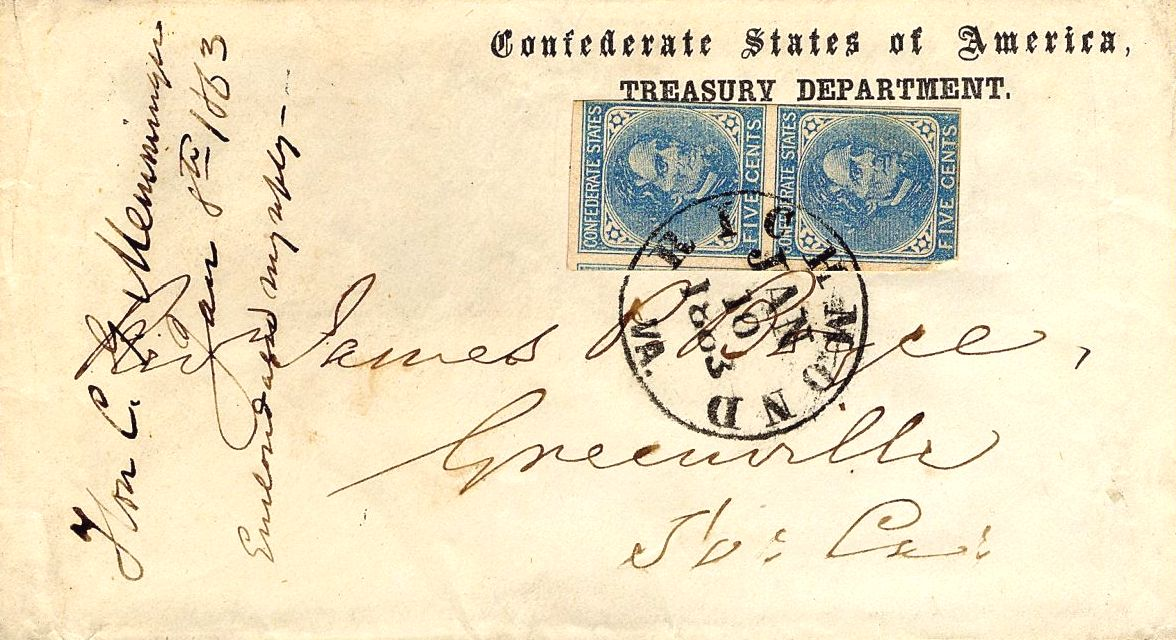 CSA Stamp on cover from Richmond during Confederacy period.Various departments of the Confederate government used envelopes which were printed with the names of their department. Examples where the words 'Official Business' are often common, however these envelopes were not official in any way, and required payment of postage, unlike official envelpes of the US government whose postage is free, referred to as the free franking privilege.